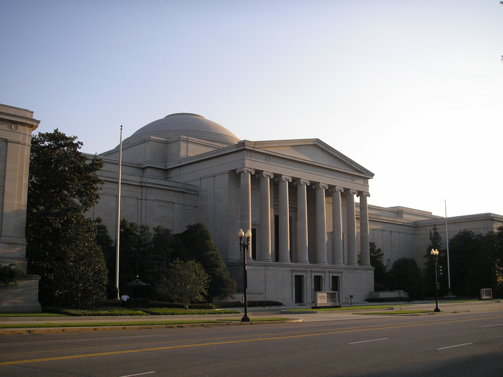 The West Building of the National Gallery of Art